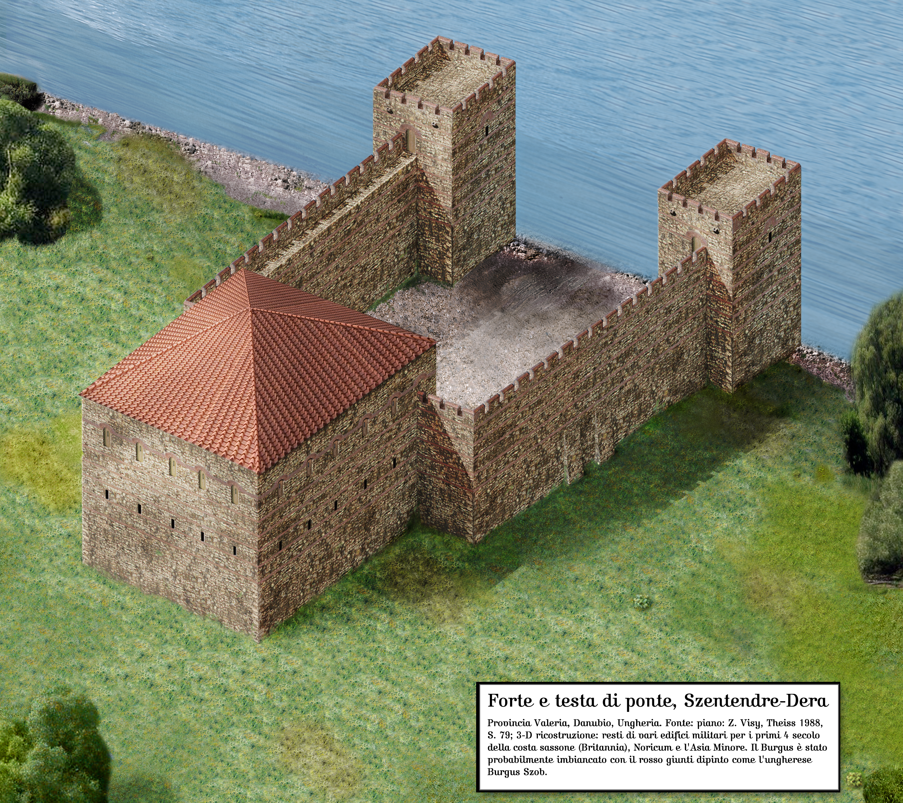 Roman Burgus Szentendre-Dera, Danube frontier (HU)